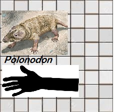 Size comparison of Polonodon geminidens